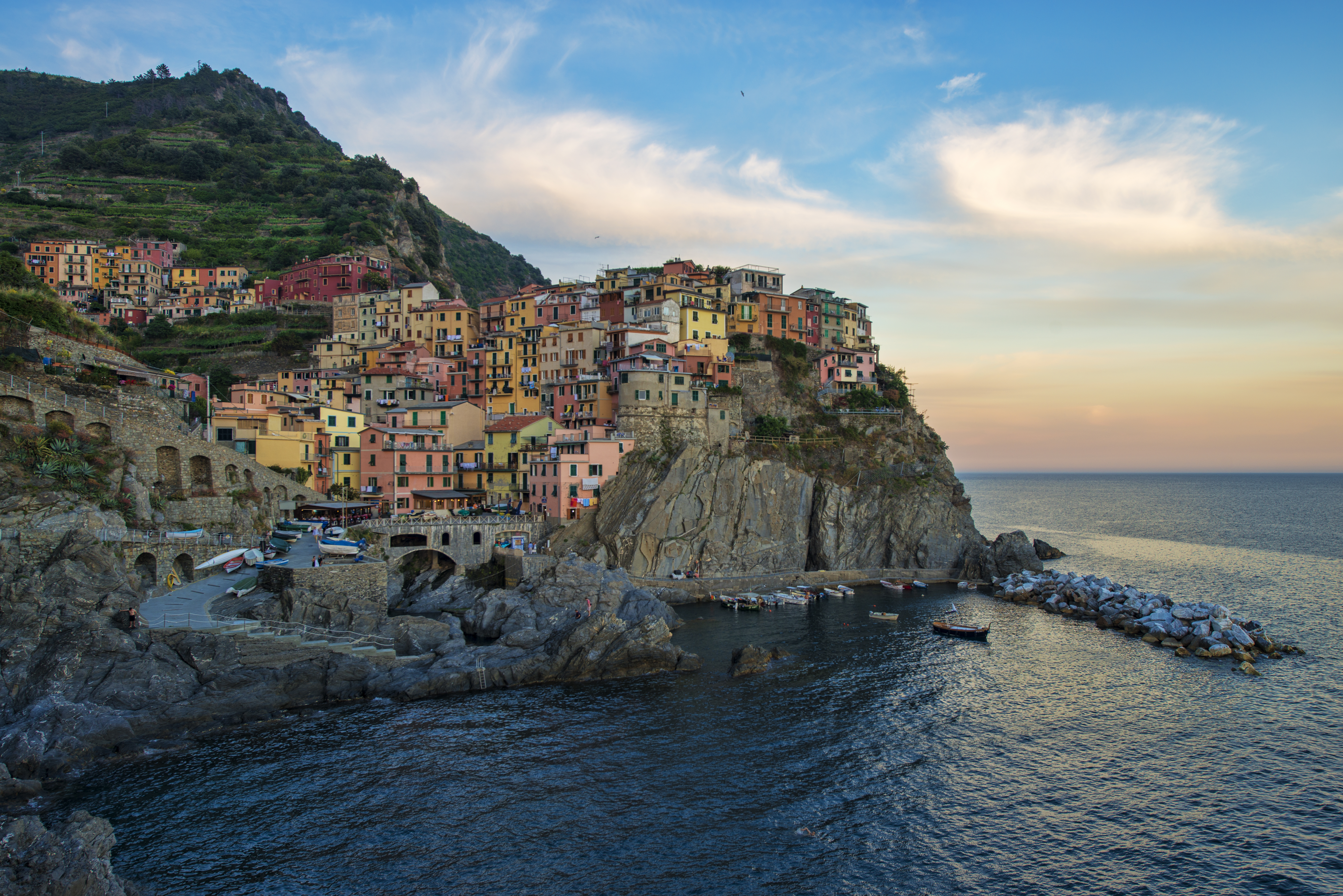 manarola cinque terre italy 2012 evening